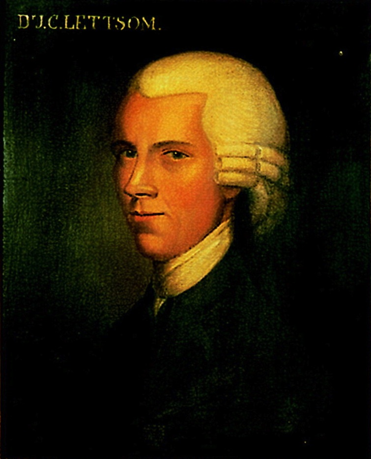 John C. Lettsome (1744–1815) was an English physician and philanthropist